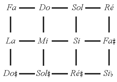 French transcription of Euler's Speculum musicae